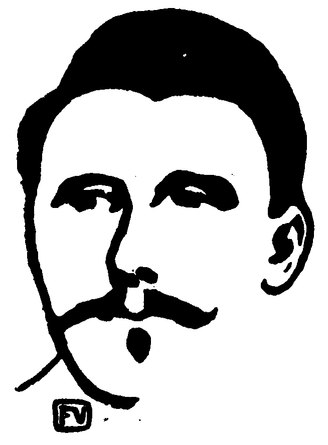 Portrait of Belgian writer, poet and playwright Maurice Maeterlinck (1862-1949) from Le Livre des masques (vol. II, 1898) by Remy de Gourmont (1858-1916)